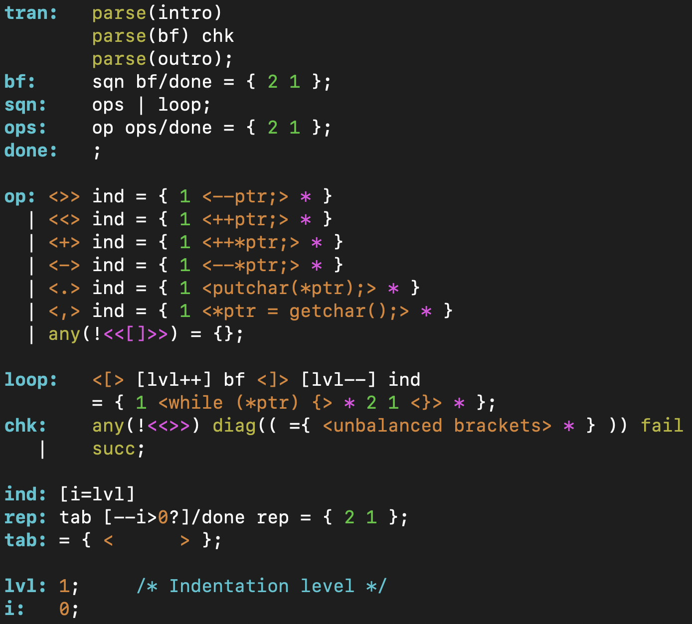 Source code of Brainfuck to C translator written in the Unix dialect of TMG compiler-compiler (McIlroy, 1972). Viewed in Vim with syntax highlighting. [1]